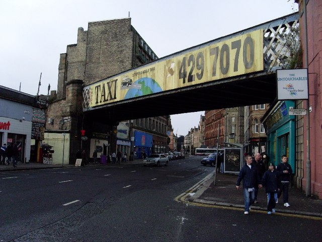 Railway bridge over Gallowgate This line is now disused by commercial trains, and only used by freight traffic, despite leading to one of the only two bridges to cross the Clyde.